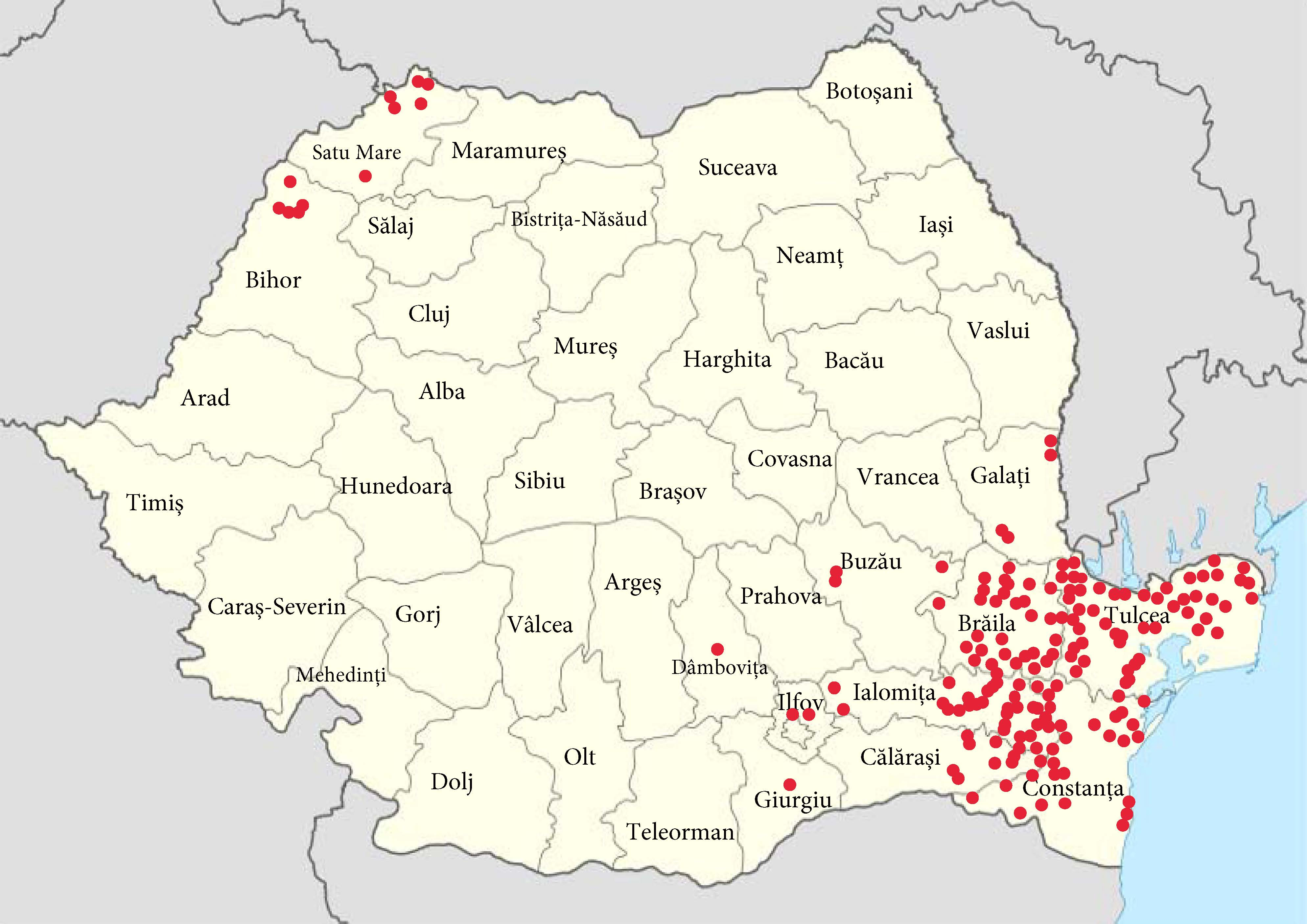 African Swine fever in Romania, Domestic pigs. Updated Outbreak 19 September 2017